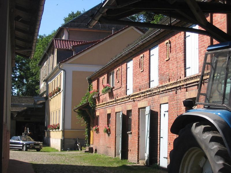 Watermill „Wühlmühle“ at stream Plane nearby Neschholz. The village Neschholz is an incorporated part of the town Belzig in the district Potsdam Mittelmark, state Brandenburg, Germany. Belzig appertains to the natural preserve Naturpark Hoher Fläming.